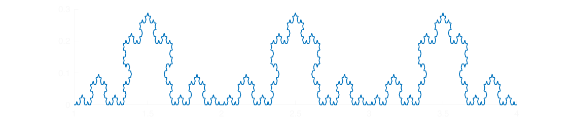 Koch curve based surface